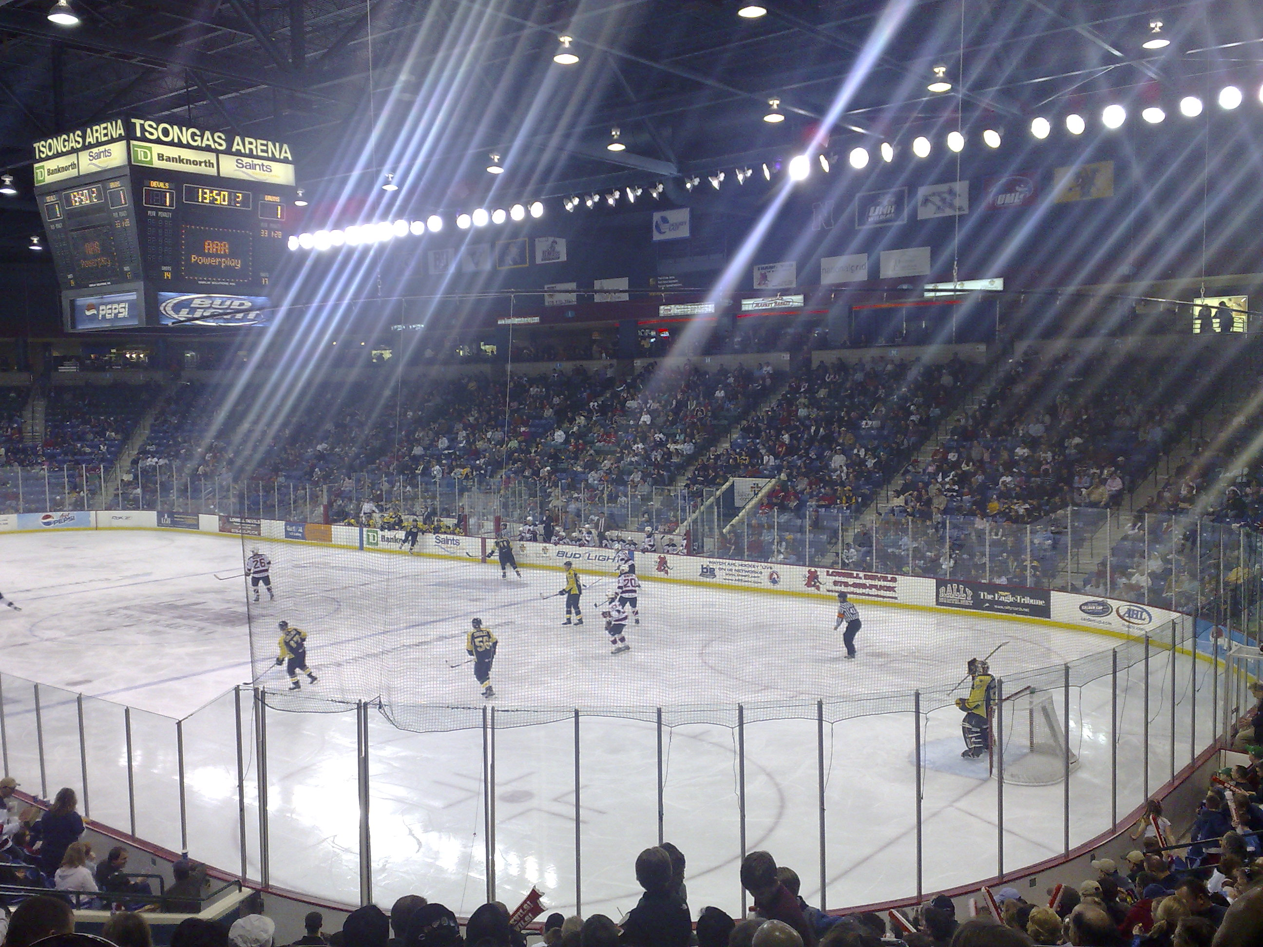 Tsongas Arena, home of the Lowell Devils